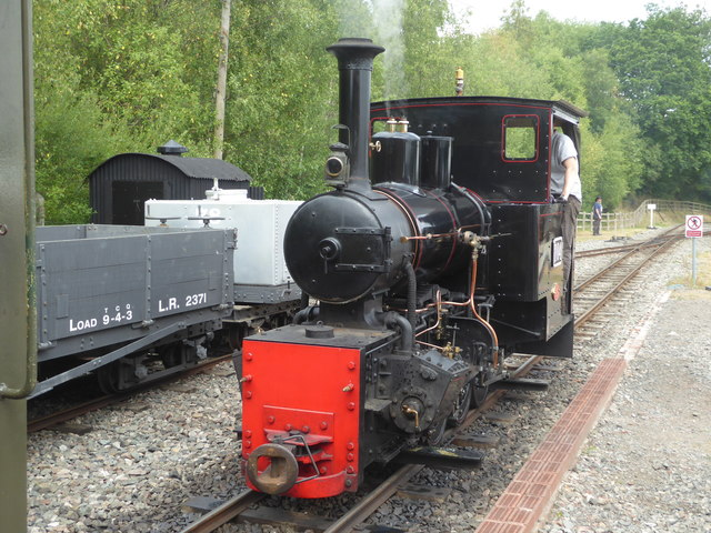 Apedale Valley Light Railway - about to couple up. This 2' gauge steam locomotive is about to couple onto the passenger train set for the short trip along the line. Admission to Tracks to the Trenches included one free round trip. The locomotive is 0-6-0WTOC built by Hudswell Clarke as No. 1238 of 1916 but is plated as Robert Hudson who had placed the order. Although this class was used in WWI, this particular example was supplied to the Ashanti Goldfield Corporation and worked near Akrofuom. Its working life ended in 1952 when it fell into a river, killing its driver and was abandoned.